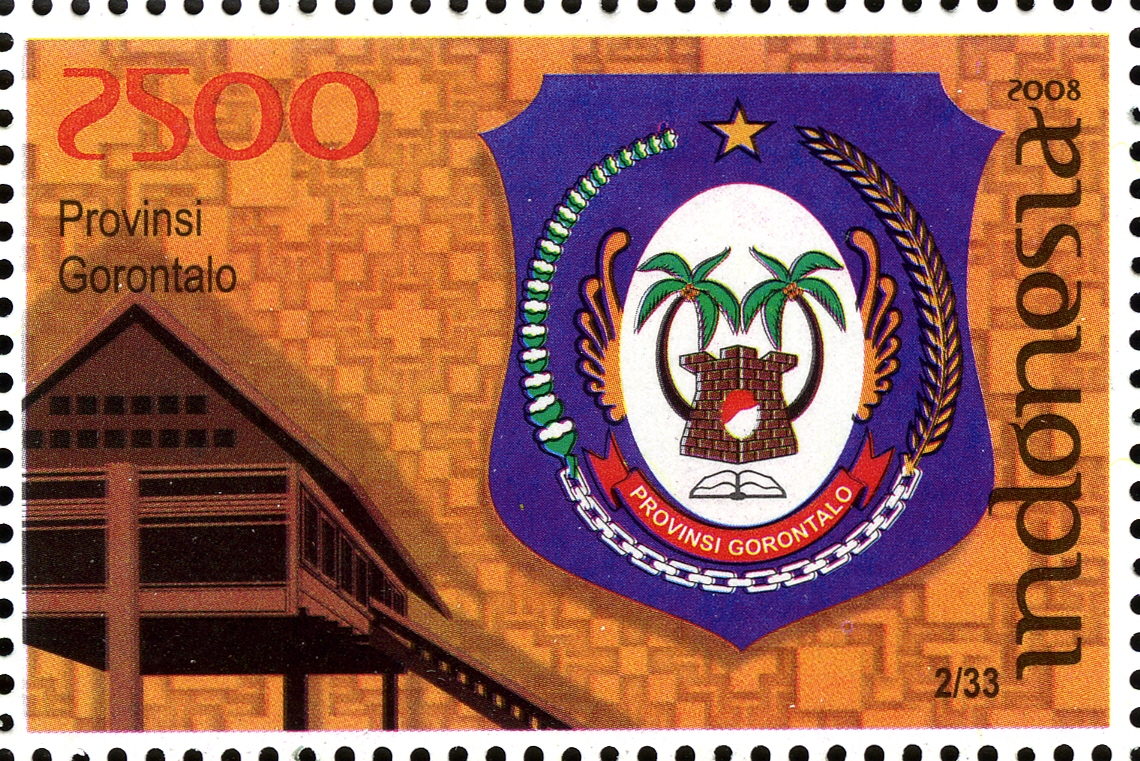 Stamps of Indonesia